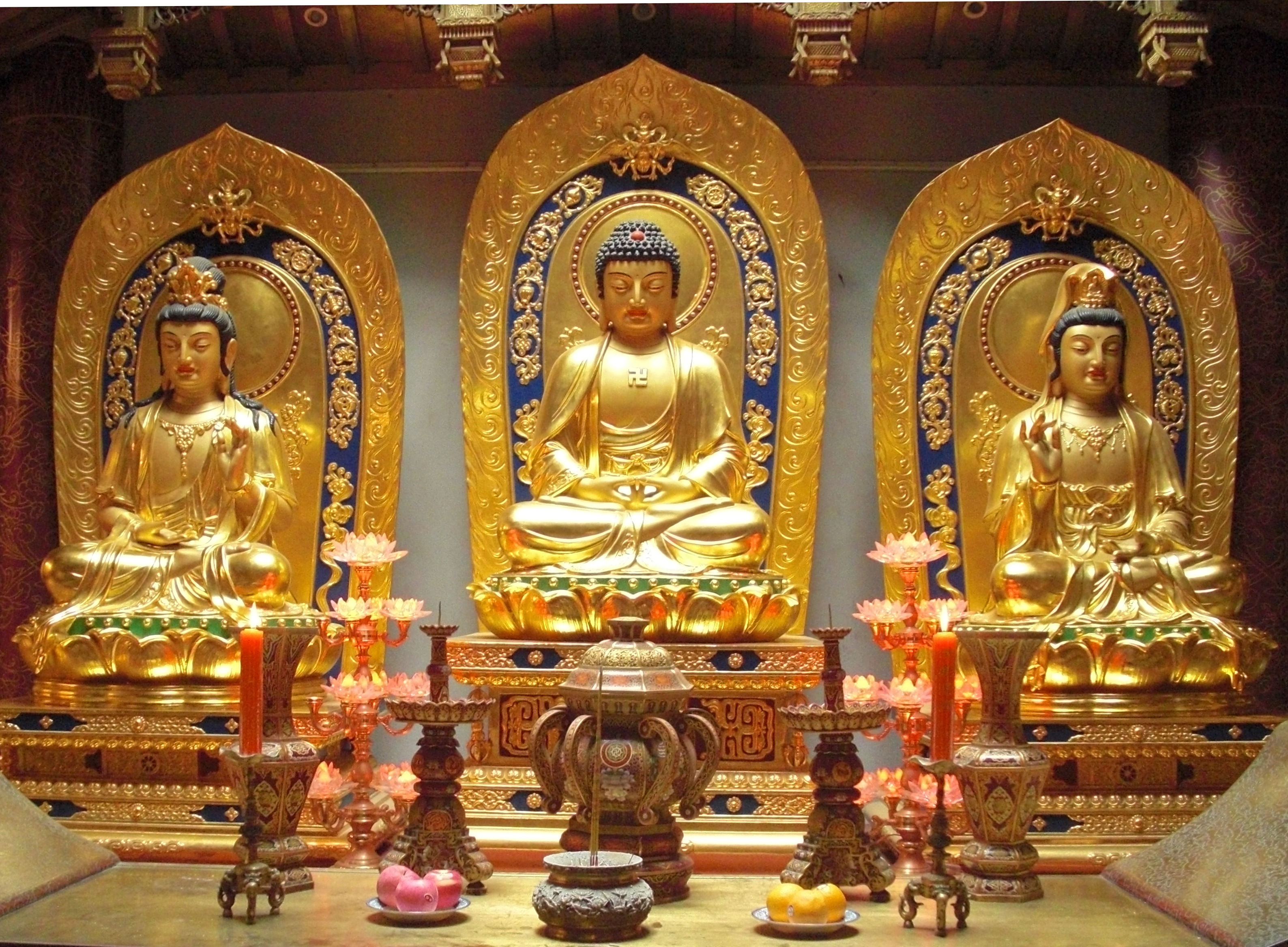 Amitabha Buddha with his attendants Avalokitesvara Bodhisattva, and Mahasthamaprapta Bodhisattva. Hangzhou, Zhejiang province, China.